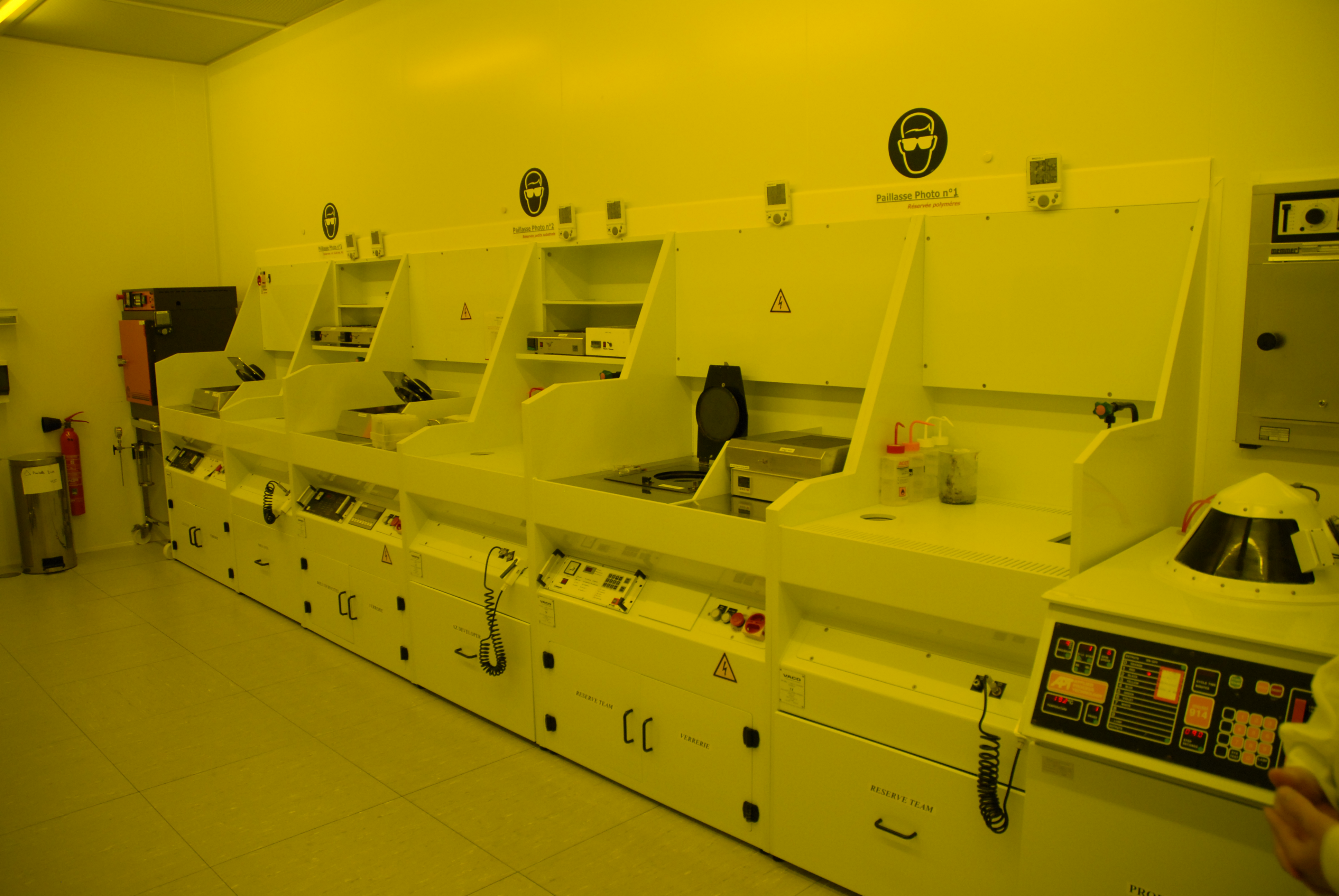 Photoresist spin coating machines under inactinic light at LAAS-CNRS technological facility in Toulouse, France.